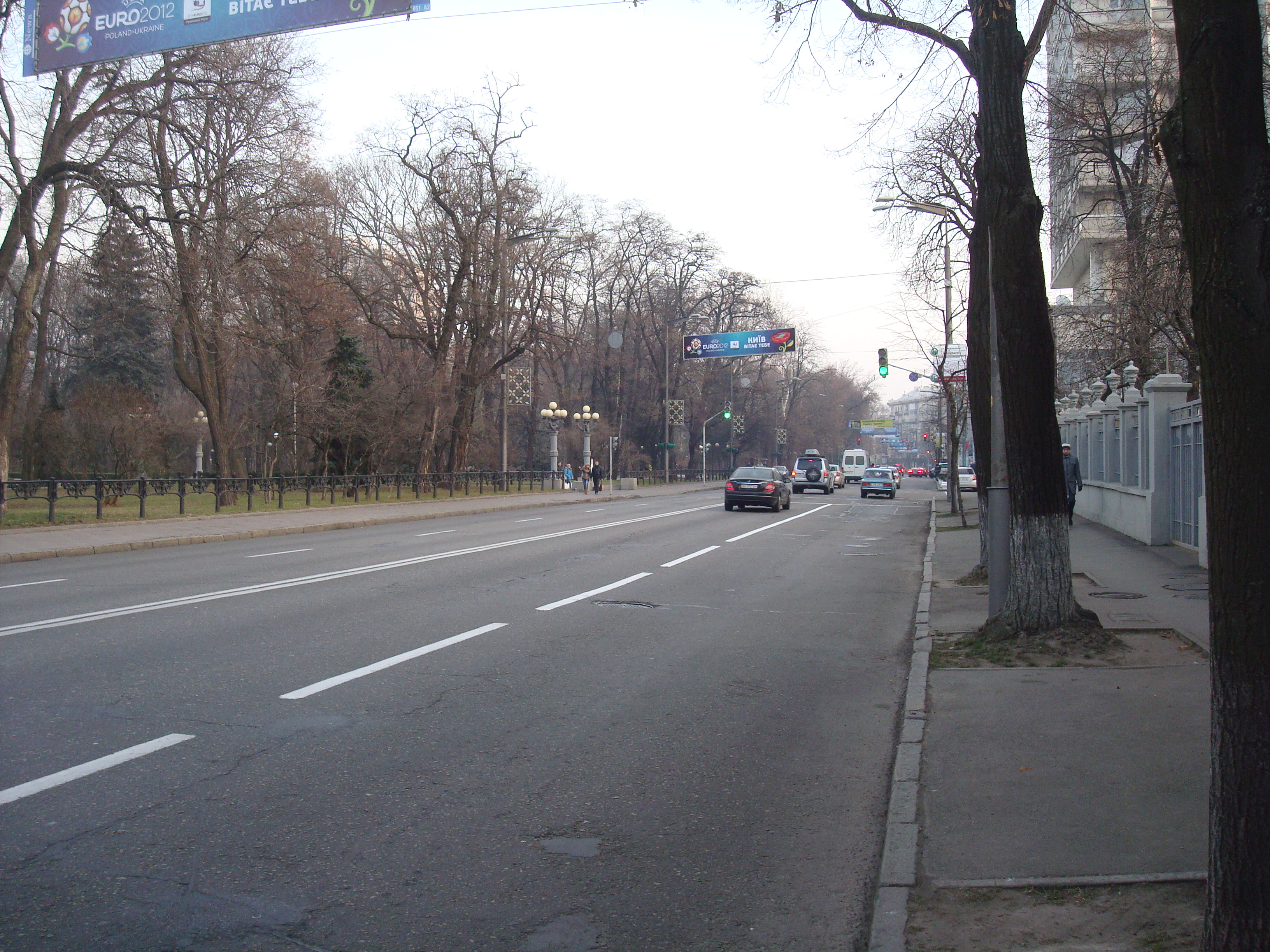 Mykhaila Hrushevskoho street in Kyiv